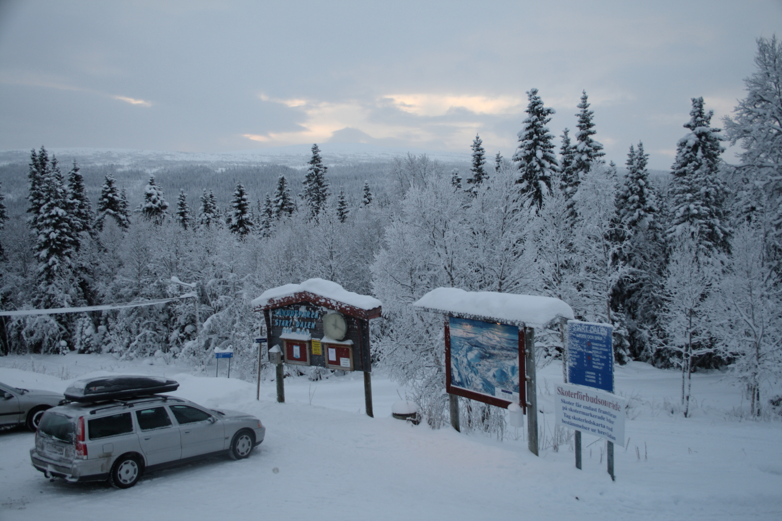 End of the paved road in Edsåsdalen, Jämtland, Sweden.